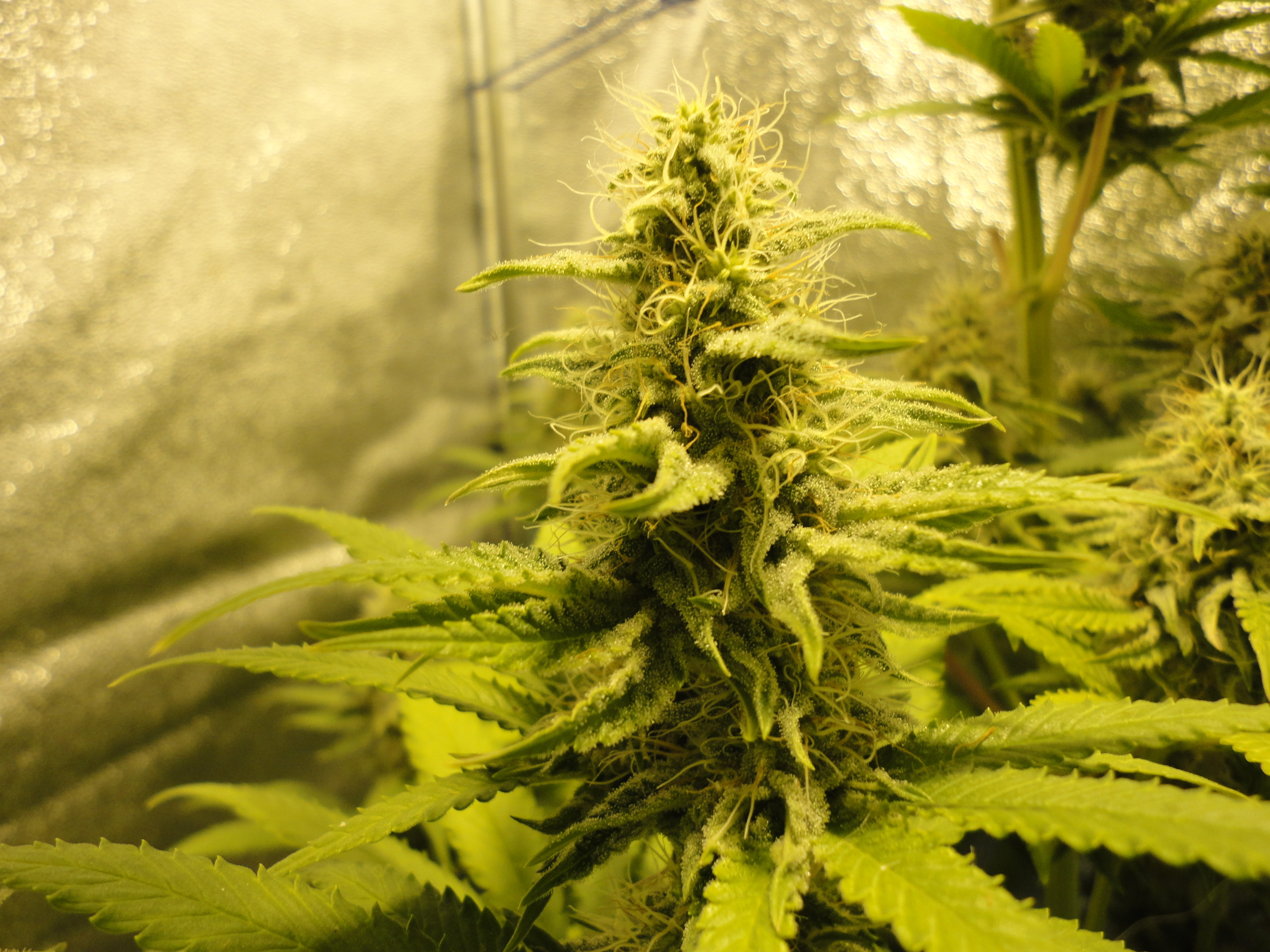 White Widow cannabis strain (form Dutch Passion), 29 day of bloom